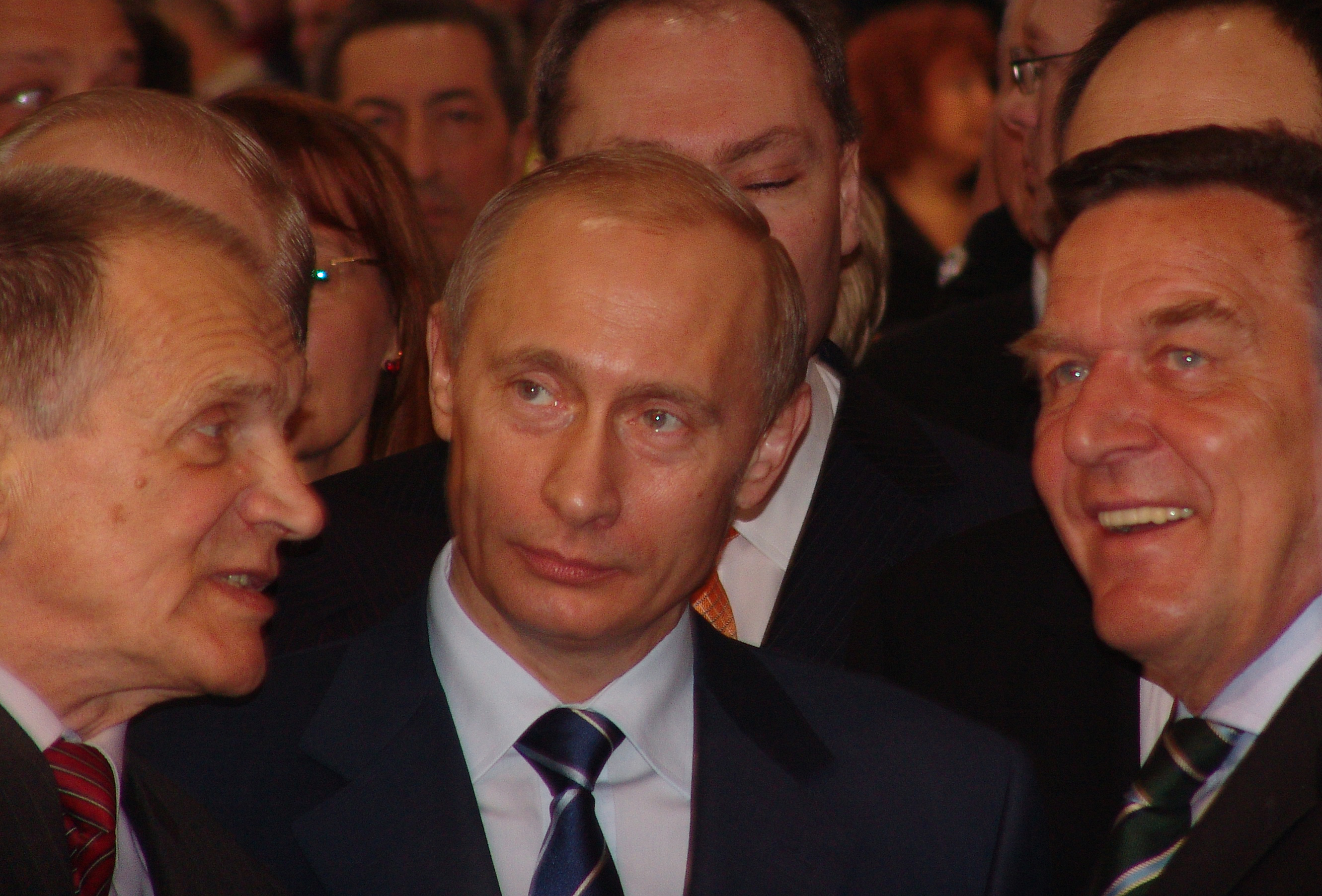 Vladimir Putin and Gerhard Schroeder